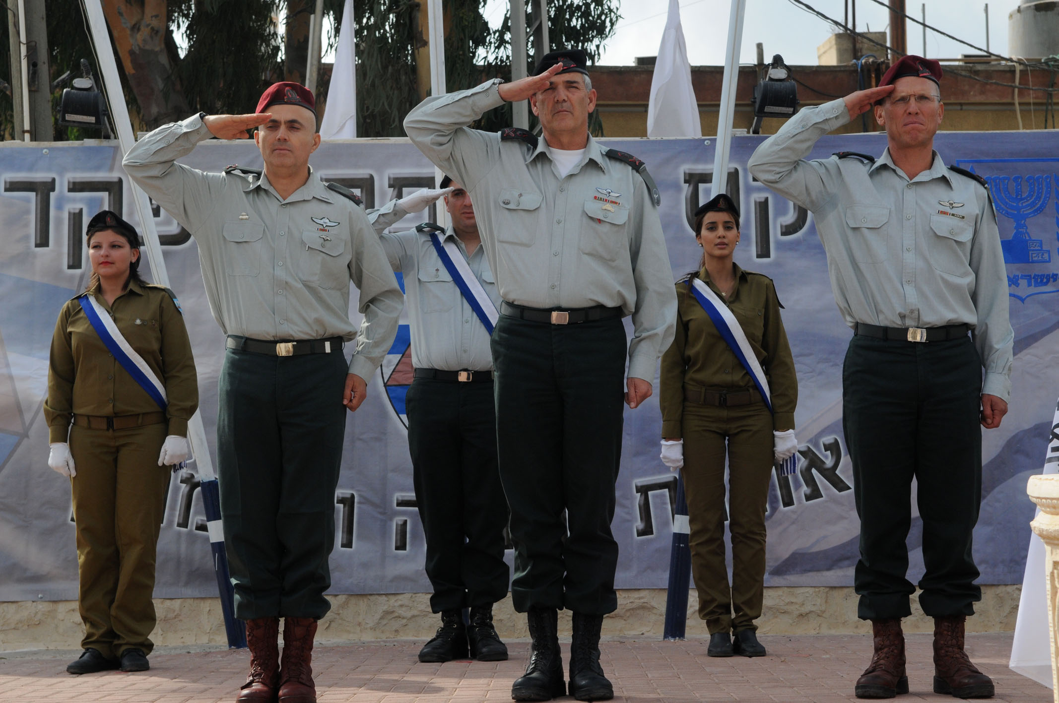 October 25, 2011 Today, Brigadier General Hagai Mordechai was appointed commander of the IDF Judea and Samaria Division. The ceremony was held at the division headquarters in Bet El, and conducted by GOC Central Command, Major General Avi Mizrahi. Brig. Gen Mordechai is replacing Brigadier General Nitsan Alon who held the position for over two years. Photo by Gal Asuach, IDF Spokesperson Unit. The Israel Defense Forces Facebook page The Israel Defense Forces blog Follow us on Twitter